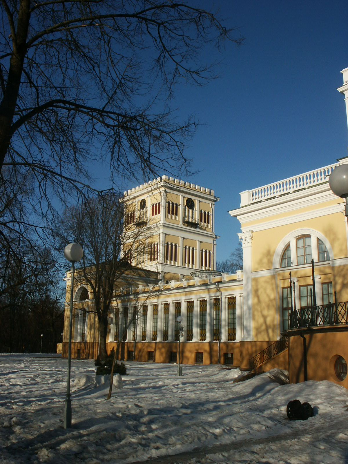 Palace of Pashkevichs, Homel, Belarus.